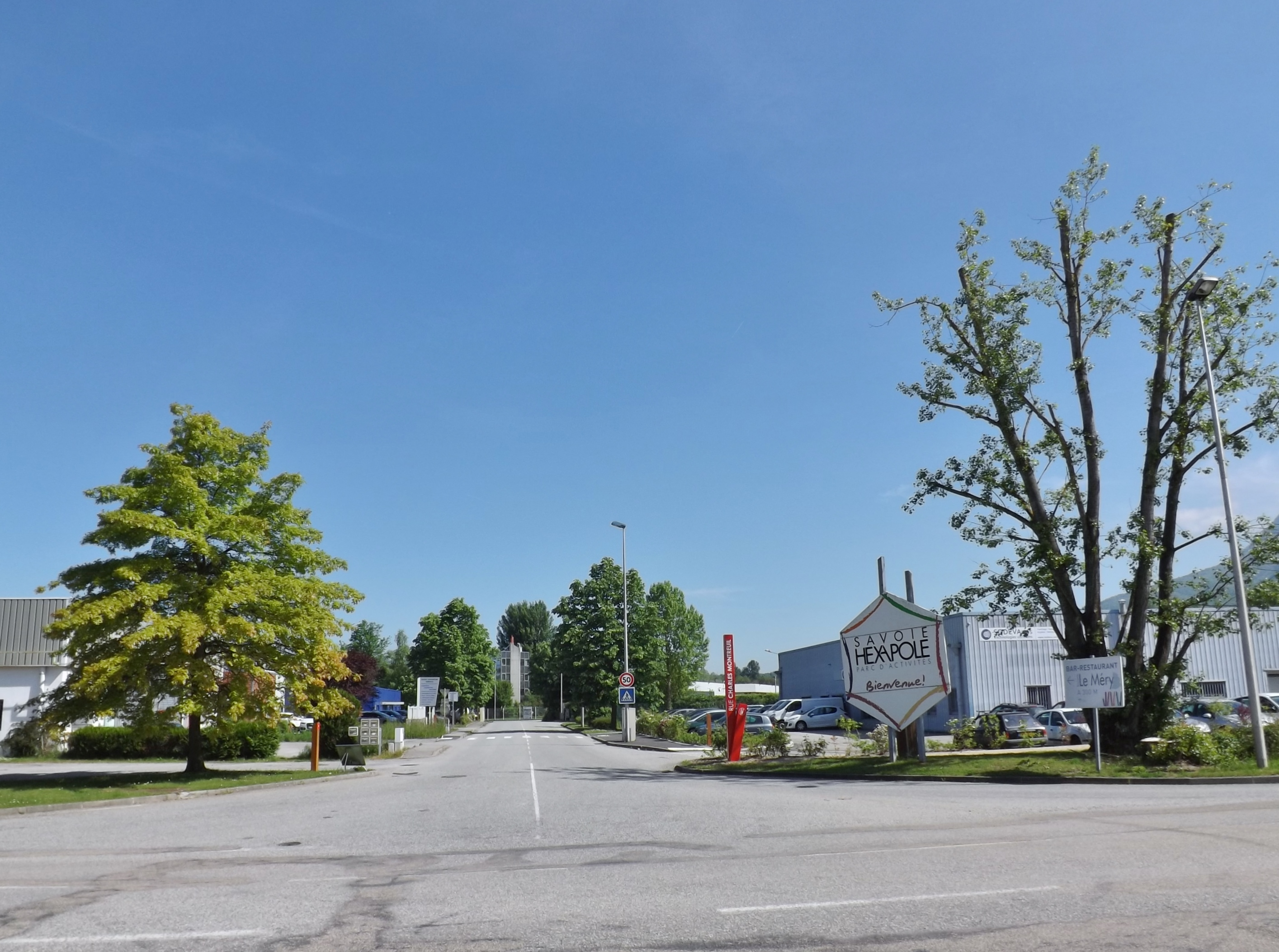 Entrance of Savoie Hexapole industrial site in Méry between Chambéry and Aix-les-Bains in Savoie, France.